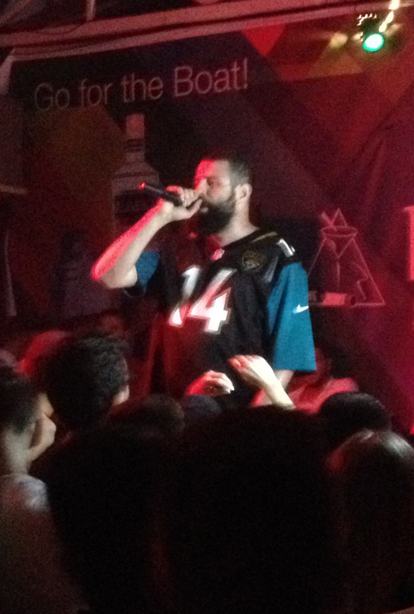 Kosovo-Albanian rapper MC Kresha during a concert at Famous Bar in Mitrovica.